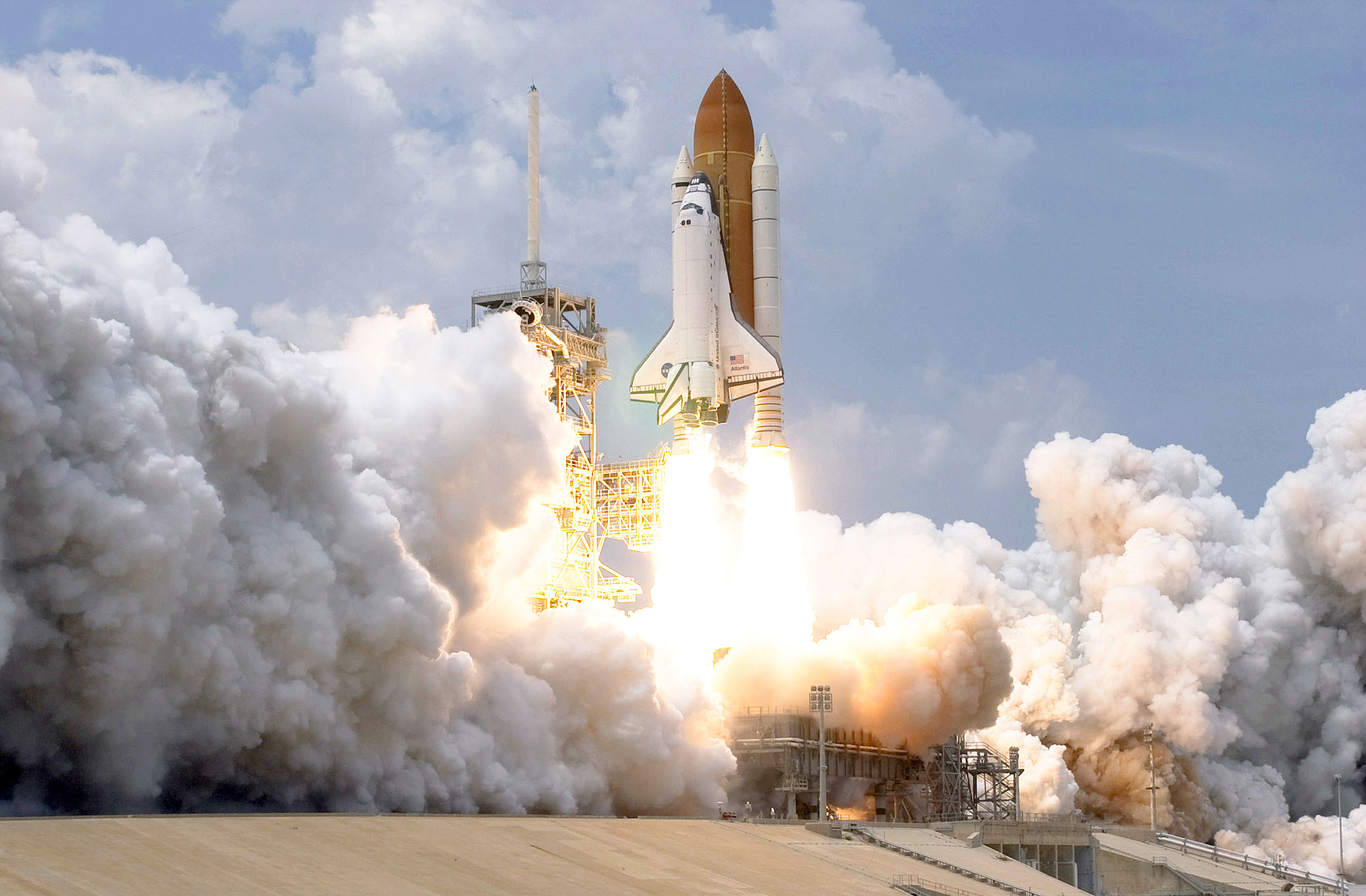 Space Shuttle Atlantis and its seven-member STS-125 crew head toward Earth orbit and rendezvous with NASA's Hubble Space Telescope on 11 May 2009.